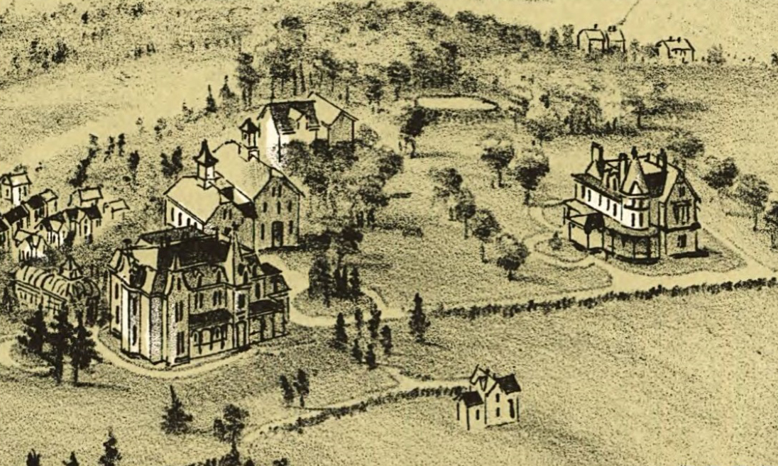 Detail of Panoramic view of Birdsboro, Berks County, Pennsylvania, 1890.